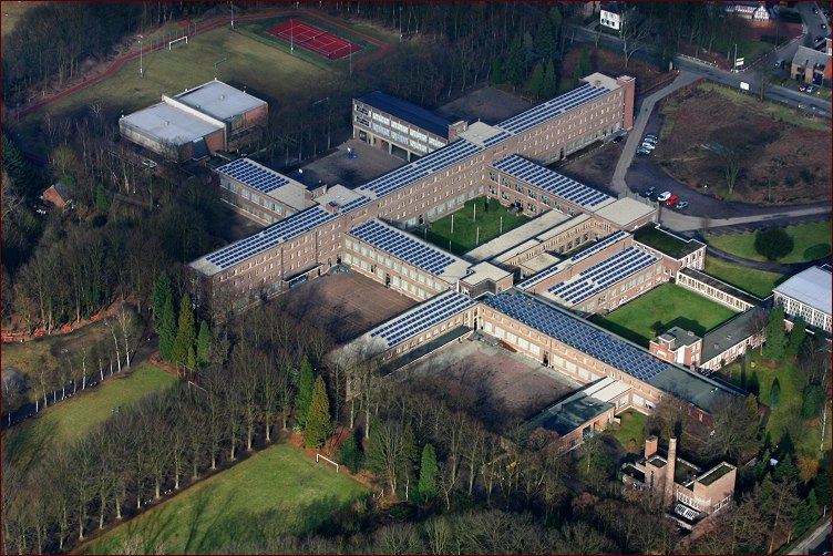 air picture school SJT